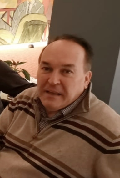 Professor Peter Coveney at an academic Christmas lunch in December 2019